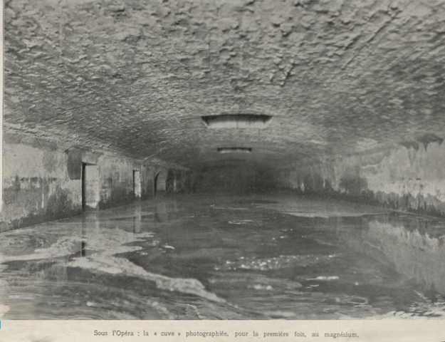 Architectural photo